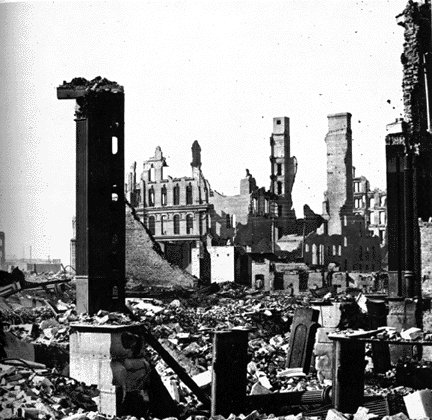 After the great Chicago fire of 1871, corner of Dearborn and Monroe Streets